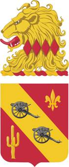 112TH FIELD ARTILLERY REGIMENT Coat of Arms Description/Blazon Shield Gules, on a bend Or two gatling guns on field mounts fessways Sable, between in sinister chief a fleur-de-lis and in dexter base a giant cactus both of the second (Or). Crest That for the regiments and separate battalions of the New Jersey Army National Guard: On a wreath of the colors Or and Gules a lion's head erased Or collared four fusils Gules. Motto A OUTRANCE (To The Utmost). Symbolism Shield The shield is red for Artillery. On the gold bend are the two old gatling guns recalling the old gatling gun companies. The cactus recalls the service on the Mexican border and the fleur-de-lis the service in France. Crest The crest is that of the New Jersey Army National Guard. Background The coat of arms was originally approved for the 112th Field Artillery Regiment, New Jersey National Guard on 20 March 1925. It was redesignated for the 695th Armored Field Artillery Battalion, New Jersey National Guard on 29 August 1951. The insignia was redesignated for the 112th Artillery Regiment, New Jersey National Guard on 20 October 1961. It was redesignated for the 112th Field Artillery Regiment, New Jersey Army National Guard on 19 June 1972.